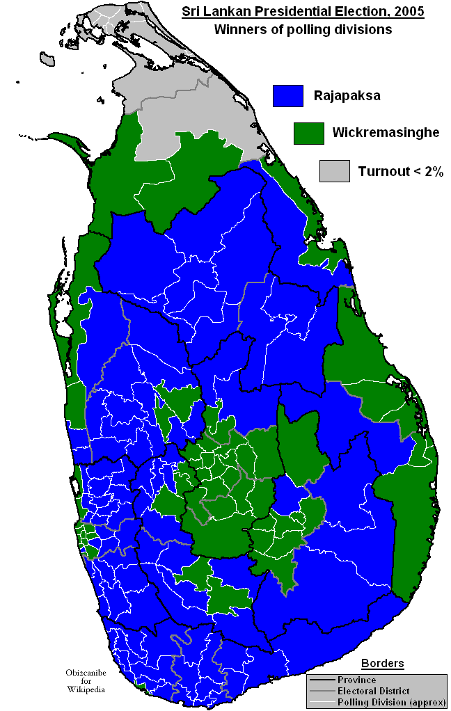 Map showing winners of polling divisions in the Sri Lankan presidential election of 2005.